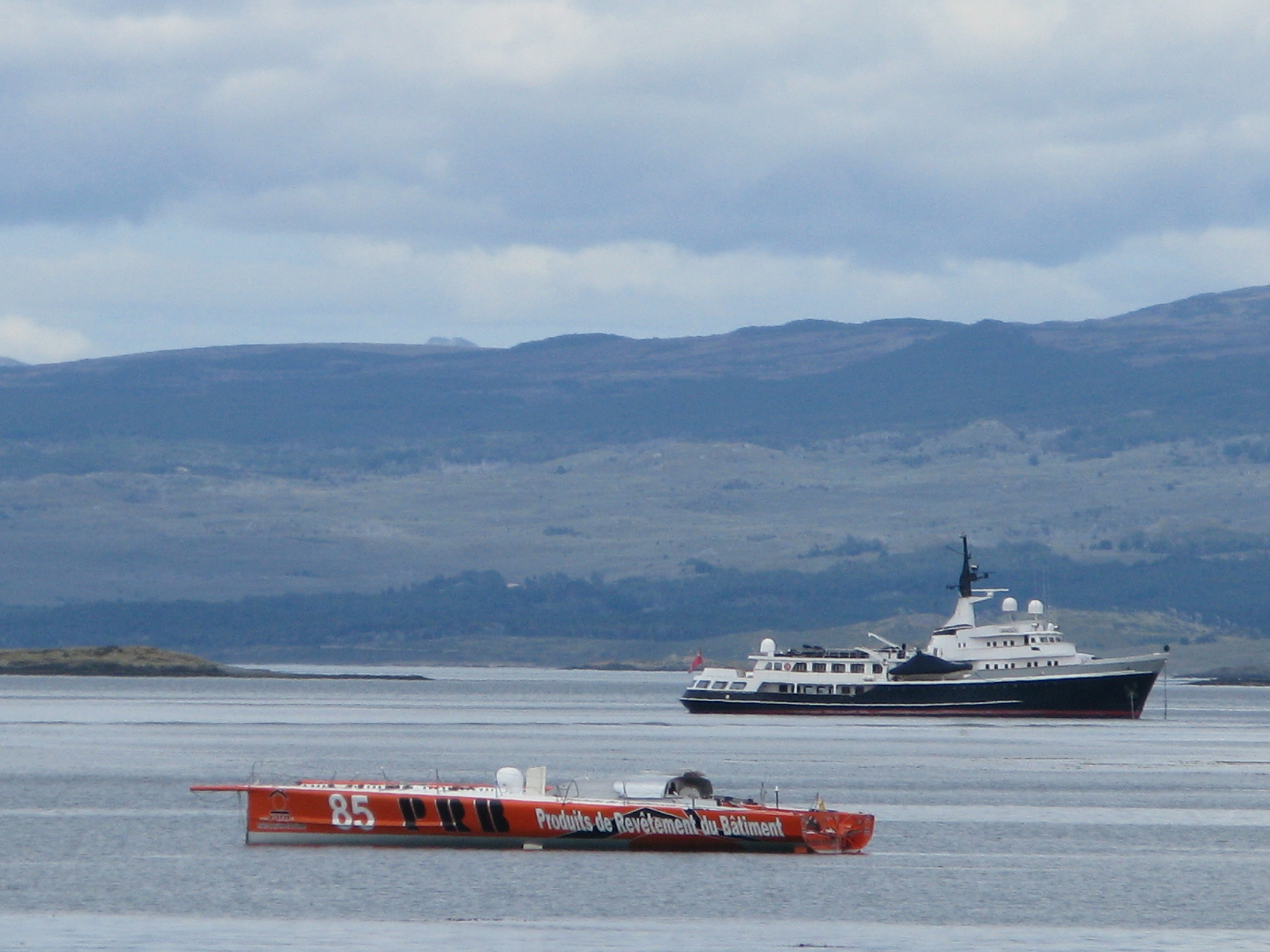 The dismasted IMOCA sailboat PRB moored in Ushuaia harbour during the Vendée Globe 2008.